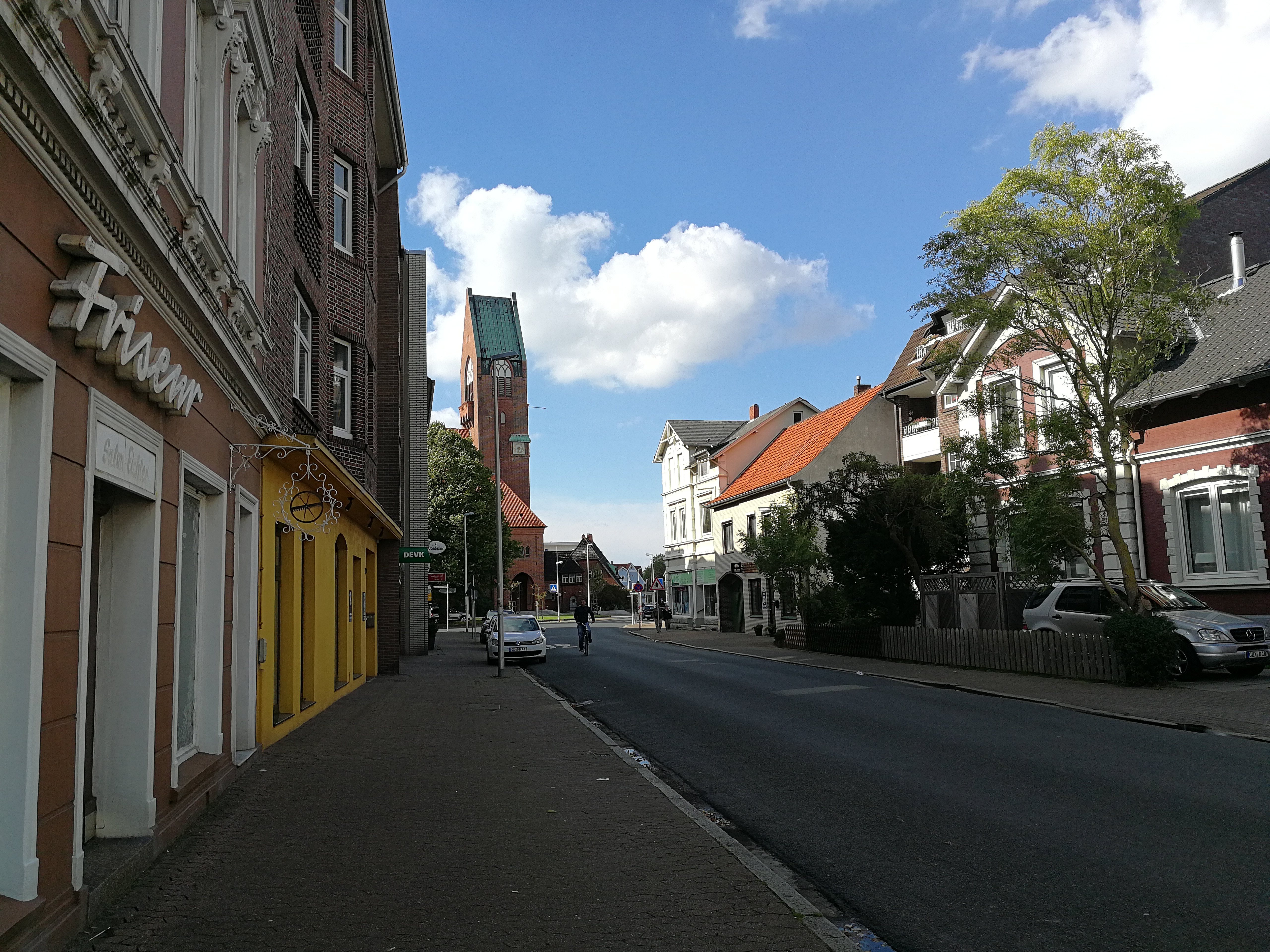 Cuxhaven